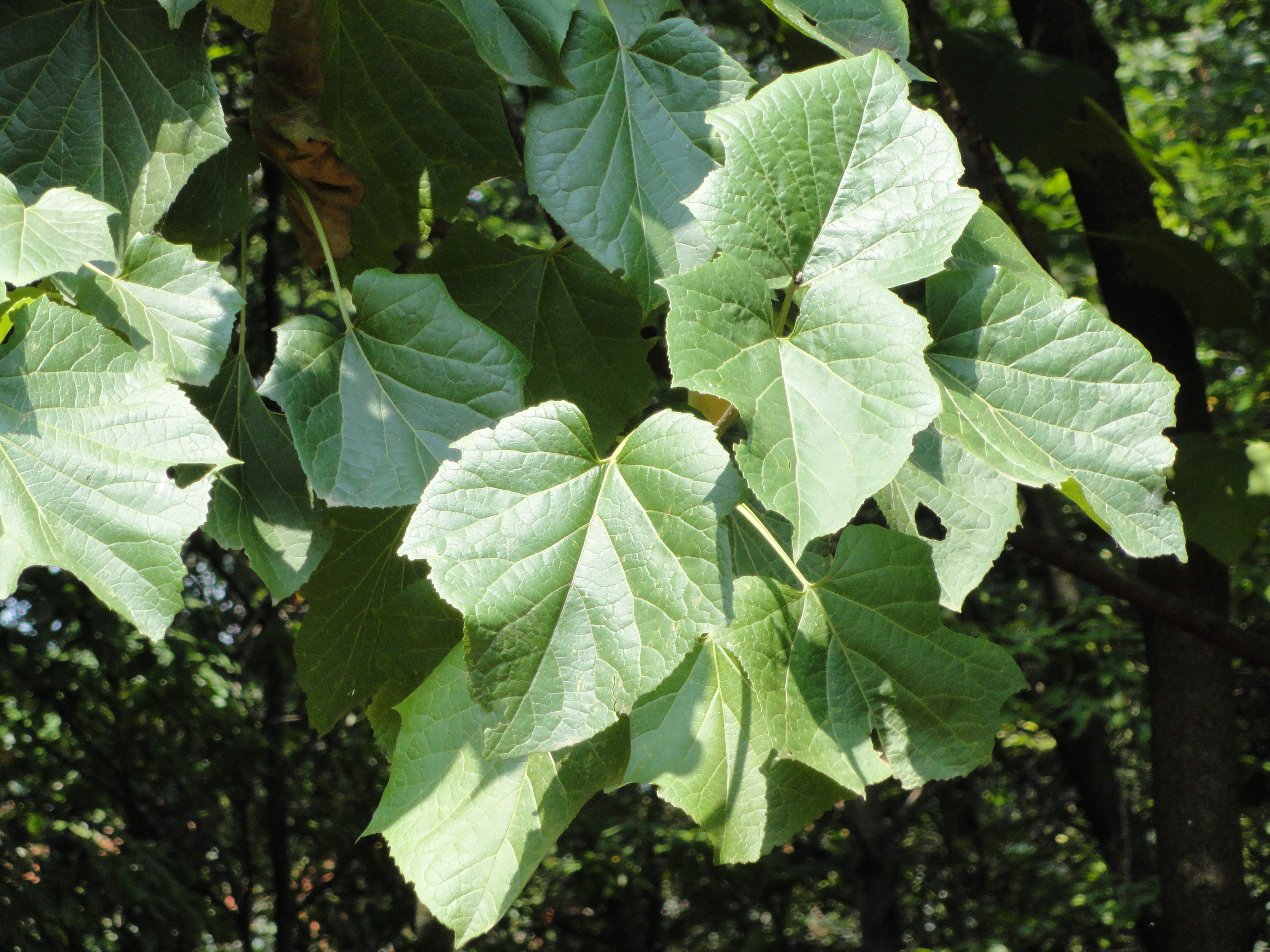 Plant specimen in the Kunming Botanical Garden, Kunming, Yunnan, China.